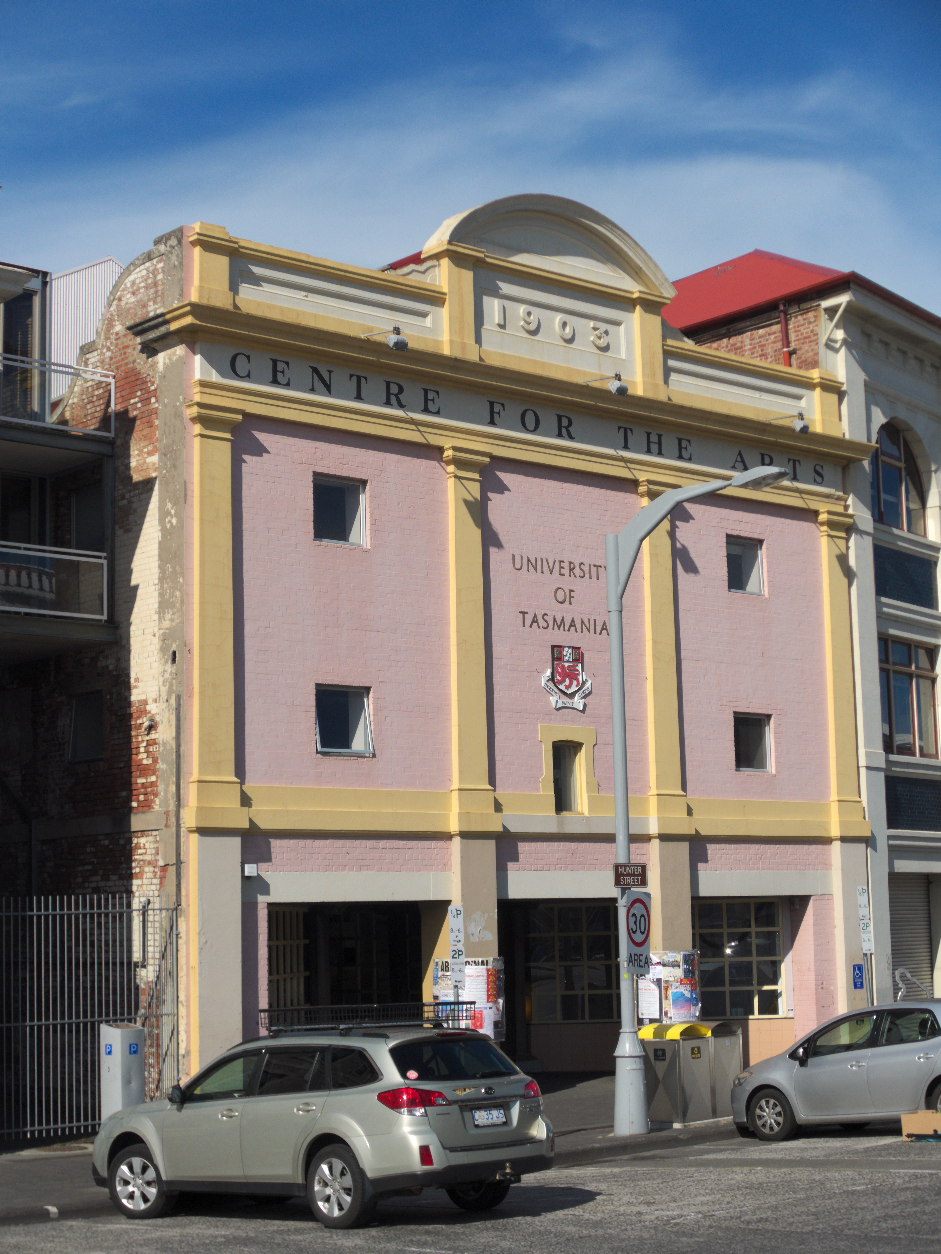 37 Hunter Street, Hobart, part of the University of Tasmania School of Creative Arts. Previously part of Henry Jones Company's IXL establishment, dated 1903.